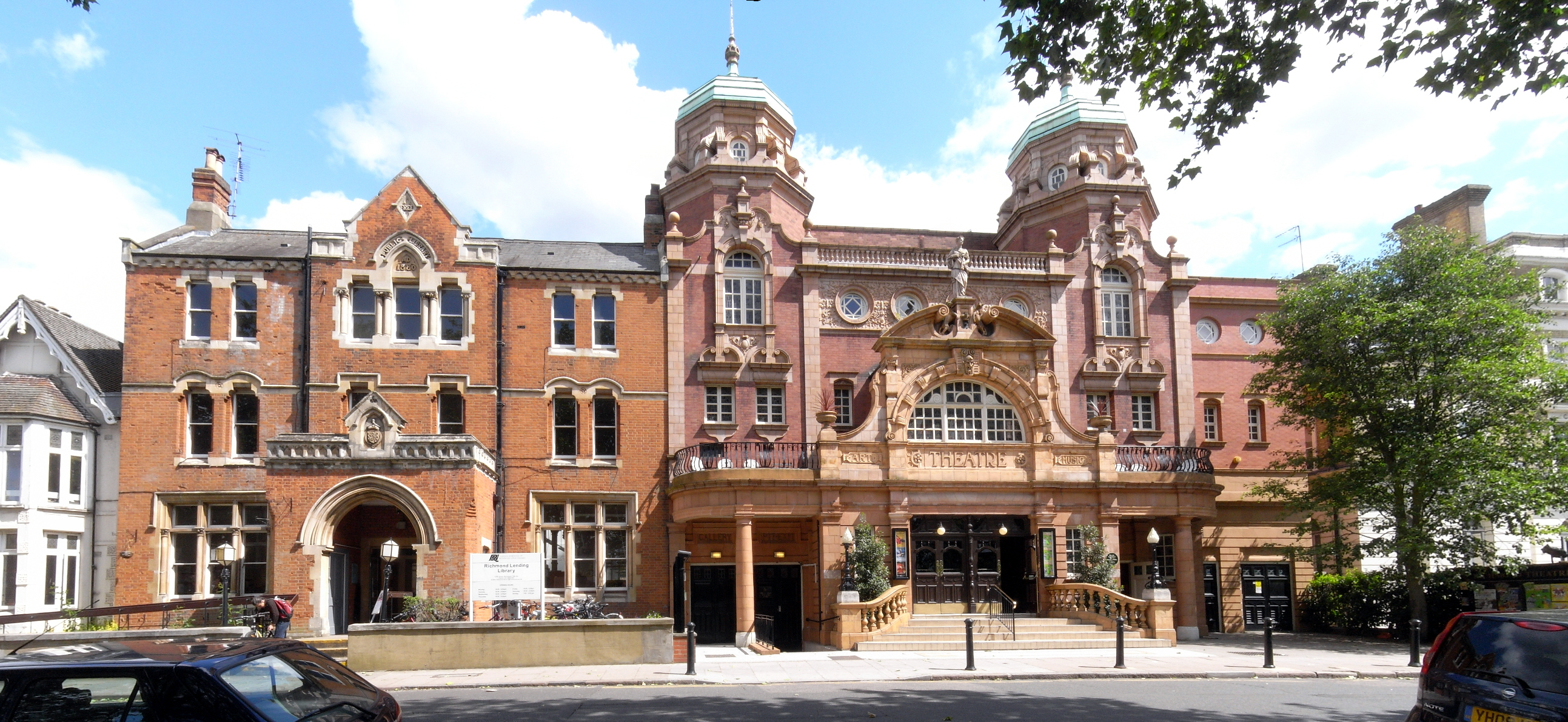 Richmond Lending Library and Richmond Theatre, Little Green, Richmond, London. Panorama of 4 photos.